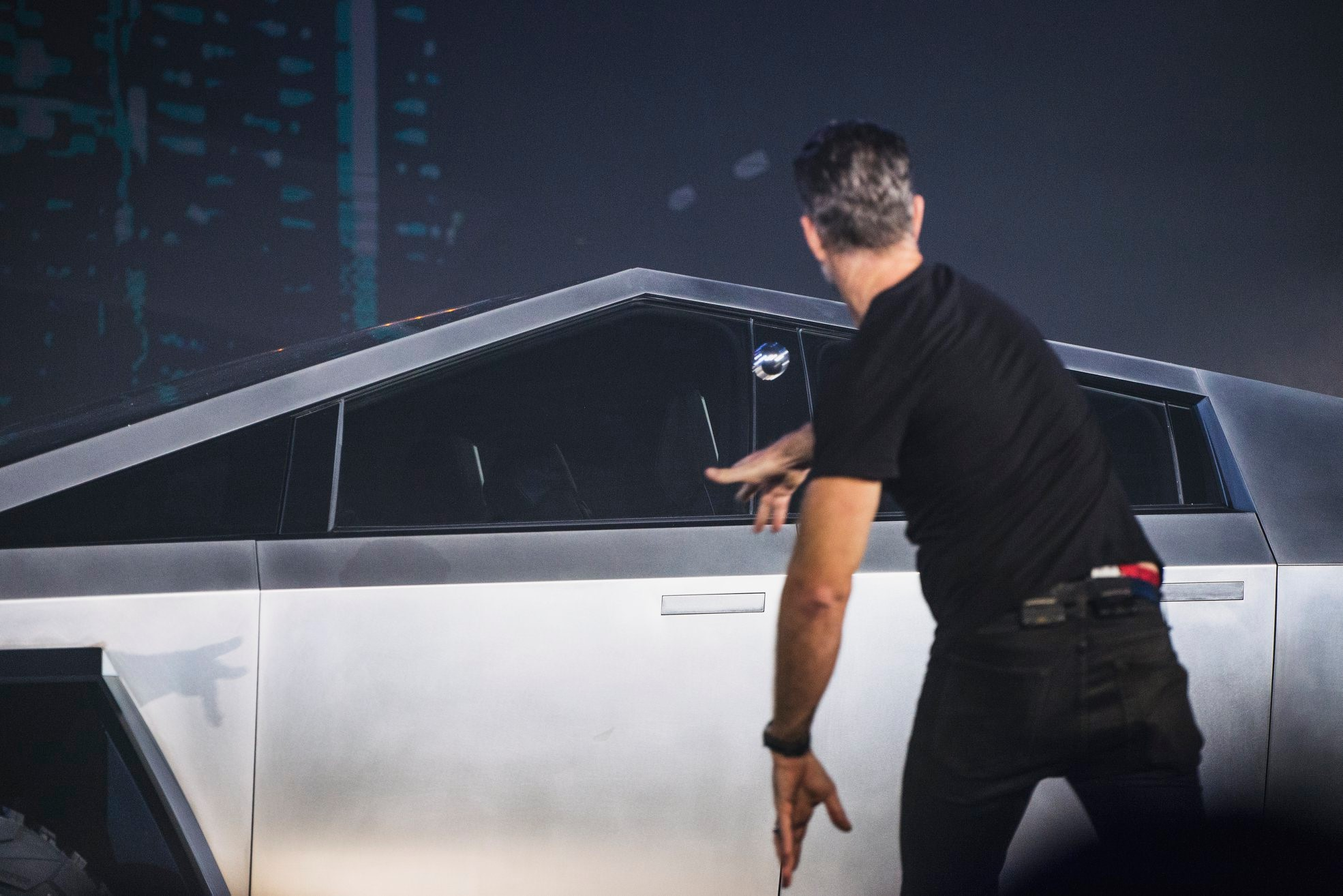 Tesla Cybertruck arriving back in dark; during test ride session after unveiling event. Motion blur.